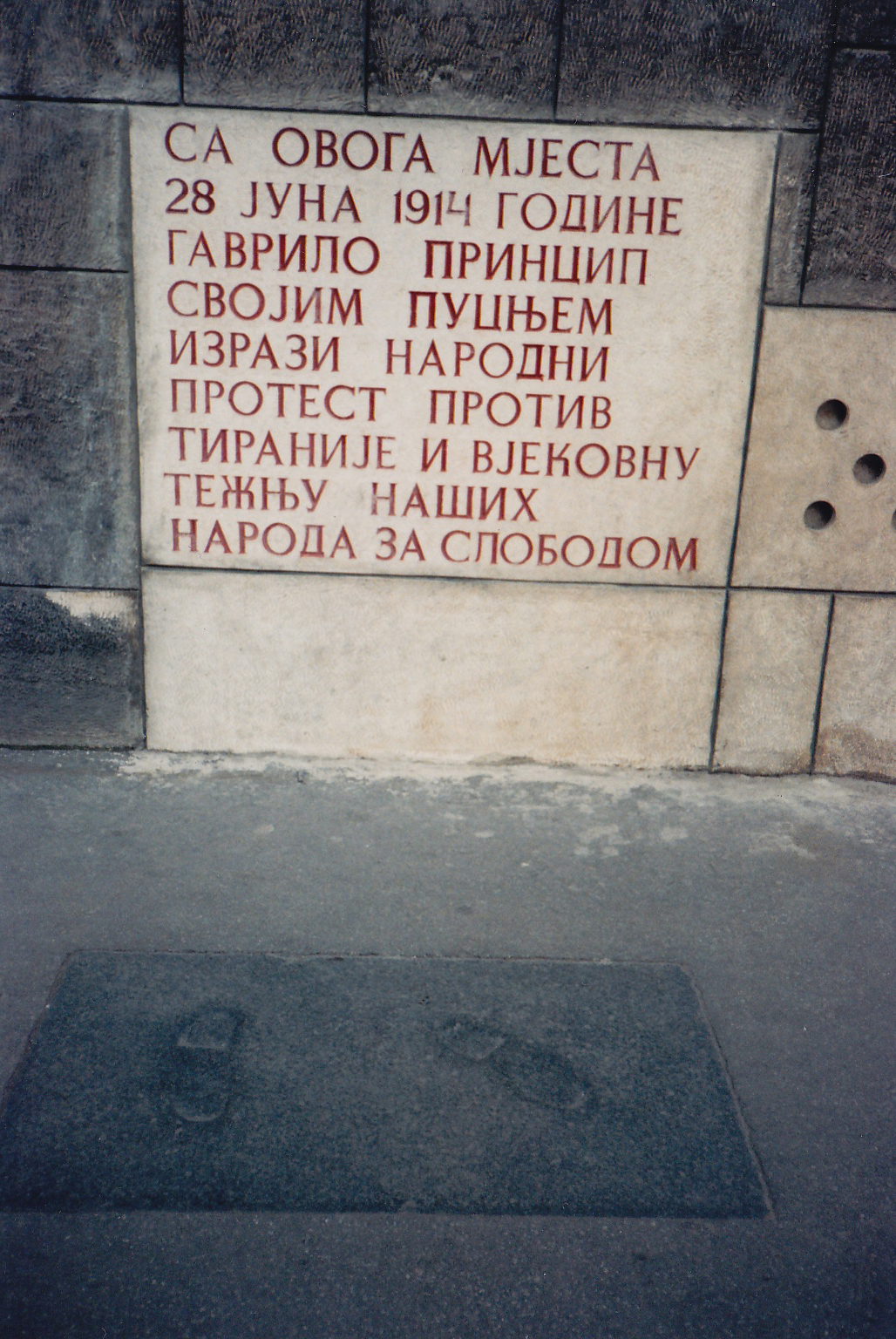 Behind this plaque was a museum showing photos of Princip's ensuing prison sentence in the custody of the Austrians . My host-brother, Goran, explained to me that Princip was considered a hero in Yugoslavia because he started a war (symbolically at least) that would lead to Yugoslavia's formation and first-time independence from the Ottomans and the Austrians in over 500 years. During the siege of Sarajevo (1992-1996), the footprints and plaque were destroyed. Princip did his shooting as a representative of the "Black Hand," a militant organization that sought South Slavic autonomy from the Habsburg Empire. During the siege, anything representing or resembling Serbian nationalism was removed. The replacement sign has a different text, and does not use the Serbian Cyrillic script, like this one did. Translation of the text: FROM THIS PLACE 28 JUNE 1914 GAVRILO PRINCIP WITH HIS SHOOTING EXPRESSED THE PEOPLE'S PROTEST AGAINST TYRANNY AND CENTURIES-LONG ASPIRATION OF OUR PEOPLE FOR FREEDOM Gavrilo Princip memorial plaque in Sarajevo, early 1960s.